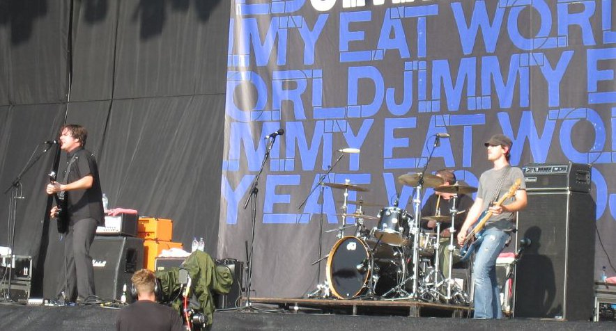 Crop of photo uploaded to Flickr by user Free-ers under CC Attribution 2.0. Cropped version by user ChrisB, also under CC Attribution 2.0.